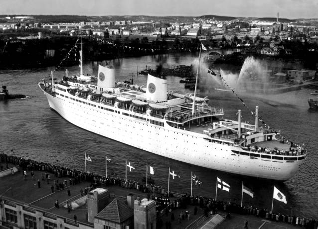 M/S Gripsholm at Gothenburg harbour 1957.